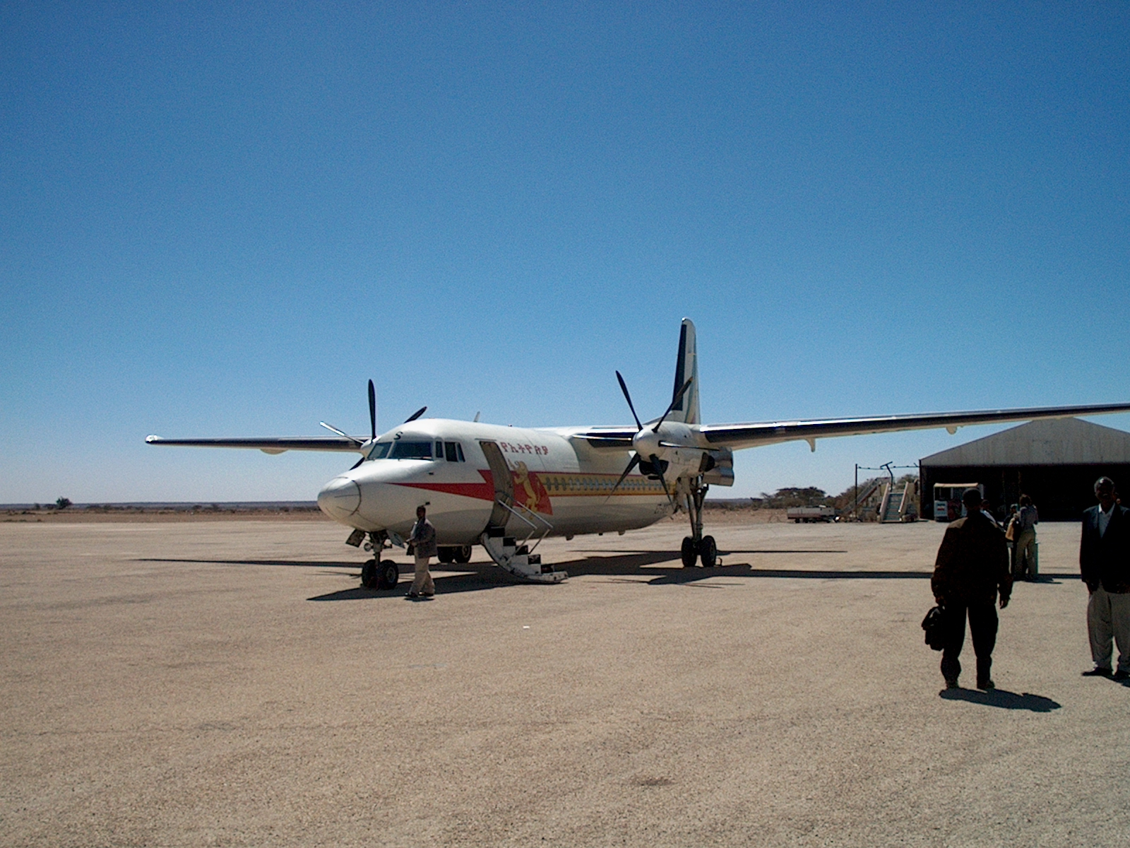 Ethiopian Fokker 50 (ET-AKS) At Hargeisa (Somaliland) international airport (IATA: HGA). Starting to take passengers on route to Dire Dawa-Addis Ababa.